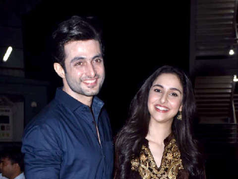 Photos: Aadil Khan, Sadia, Vidhu Vinod Chopra and others attend the special screening of Shikara